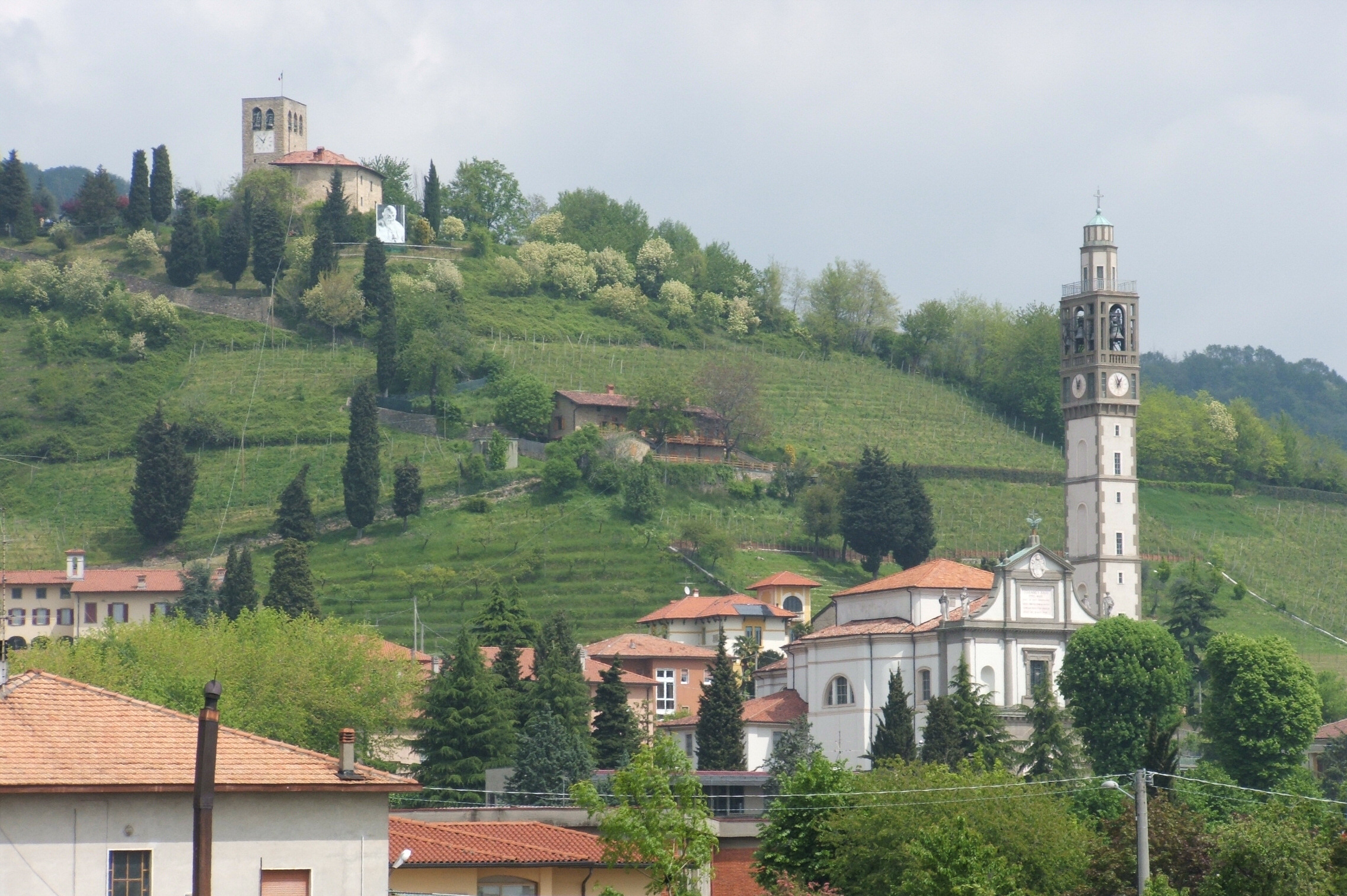 Sotto il Monte (BG), Italy - view